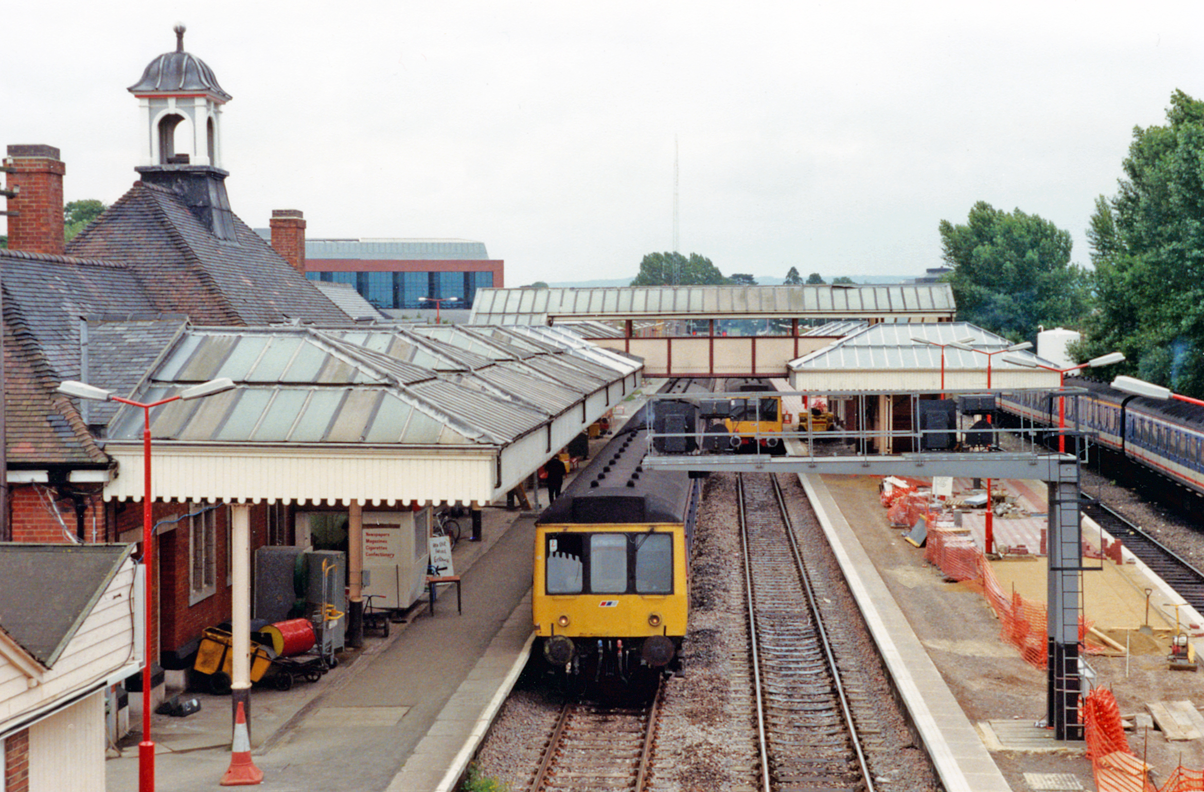 Aylesbury Station, 1991. View SE, towards Amersham and London, also Princes Risborough: ex-Metropolitan & GC Joint main line from London (Marylebone, formerly also Baker Street), to Leicester, Nottingham and Sheffield by the ex-GCR 'London Extension (closed 5/9/66). The Metropolitan (LPTB from 1933) from Baker Street ran through to Verney Junction until 1936, but from 6/61 was cut back to Amersham. The ex-GW & GC Joint branch from Princes Risborough also remains. Here in 1991 this former Aylesbury ('Joint', later 'Town') station is being thoroughly refurbished: subsequently (12/08) trains will run on to the new Aylesbury Vale Parkway station on the residual line to Quainton Road. 'First Generation' DMUs dominate the services in 1991.